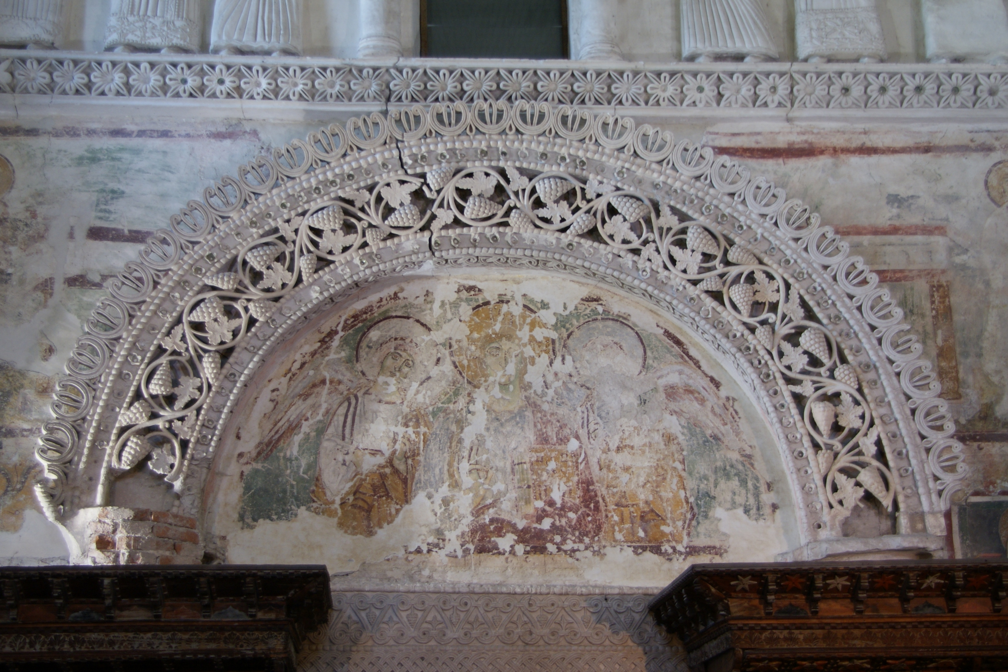 Cividale del Friuli, interior of the Lombard Temple